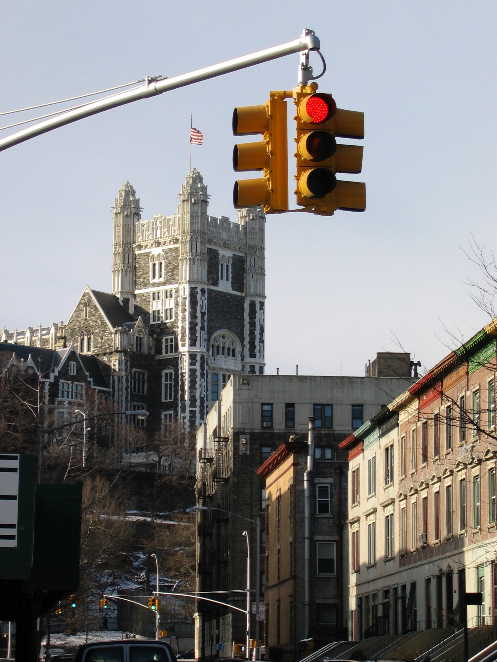 Looking down W 139 Street in Harlem, towards Shepard Hall at the City College of New York. Photo by User:Kmf164, taken on January 16, 2006.